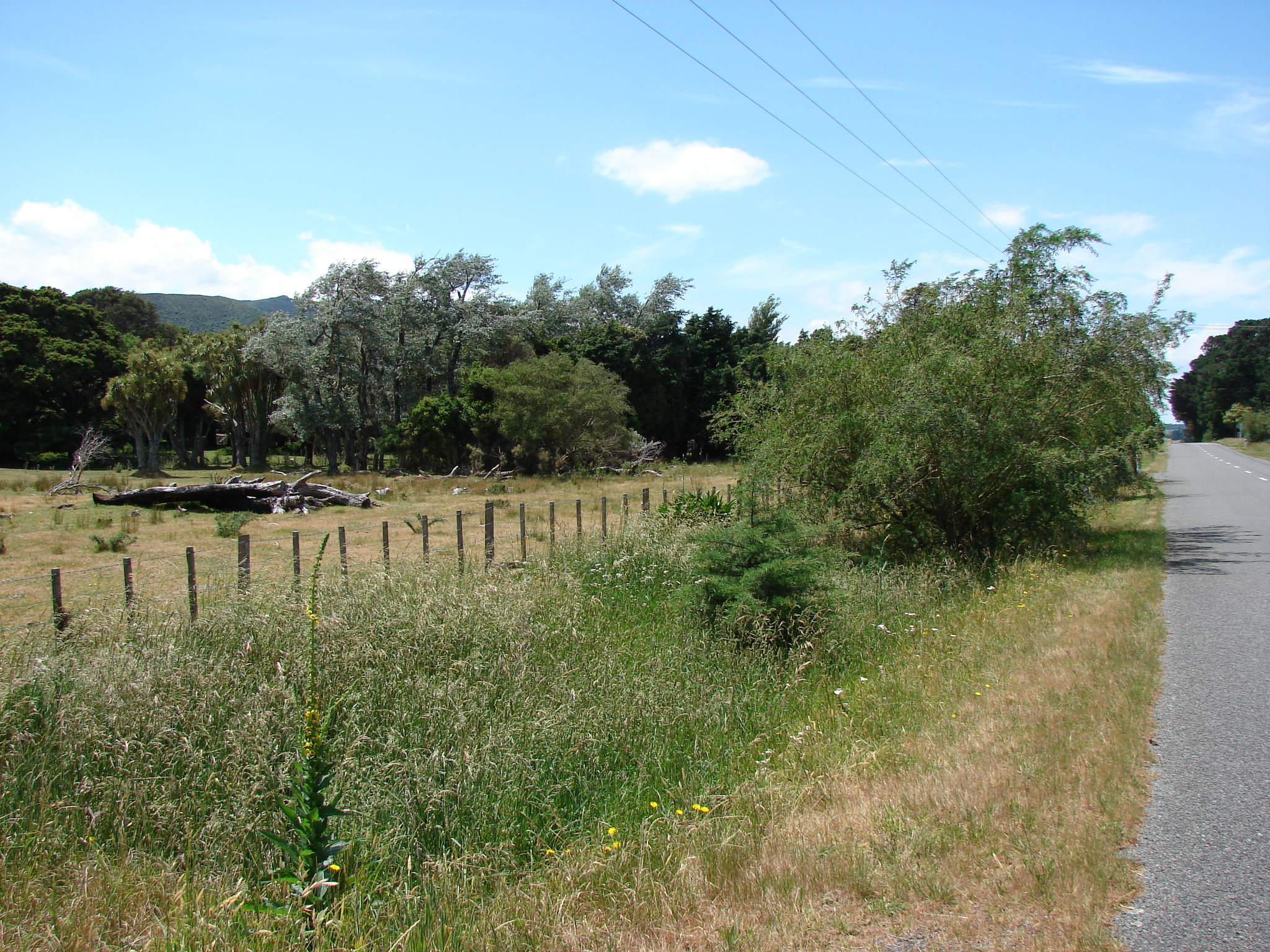 Southern end of the Pigeon Bush station yard, looking north-east in the direction of Featherston. Photographed by Matthew25187 on 2007-12-15.